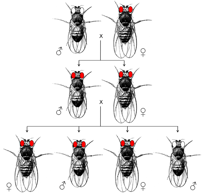 The allele w (white) in fruit flies is the case of a X-linked recessive gene (from Morgan, 1910).